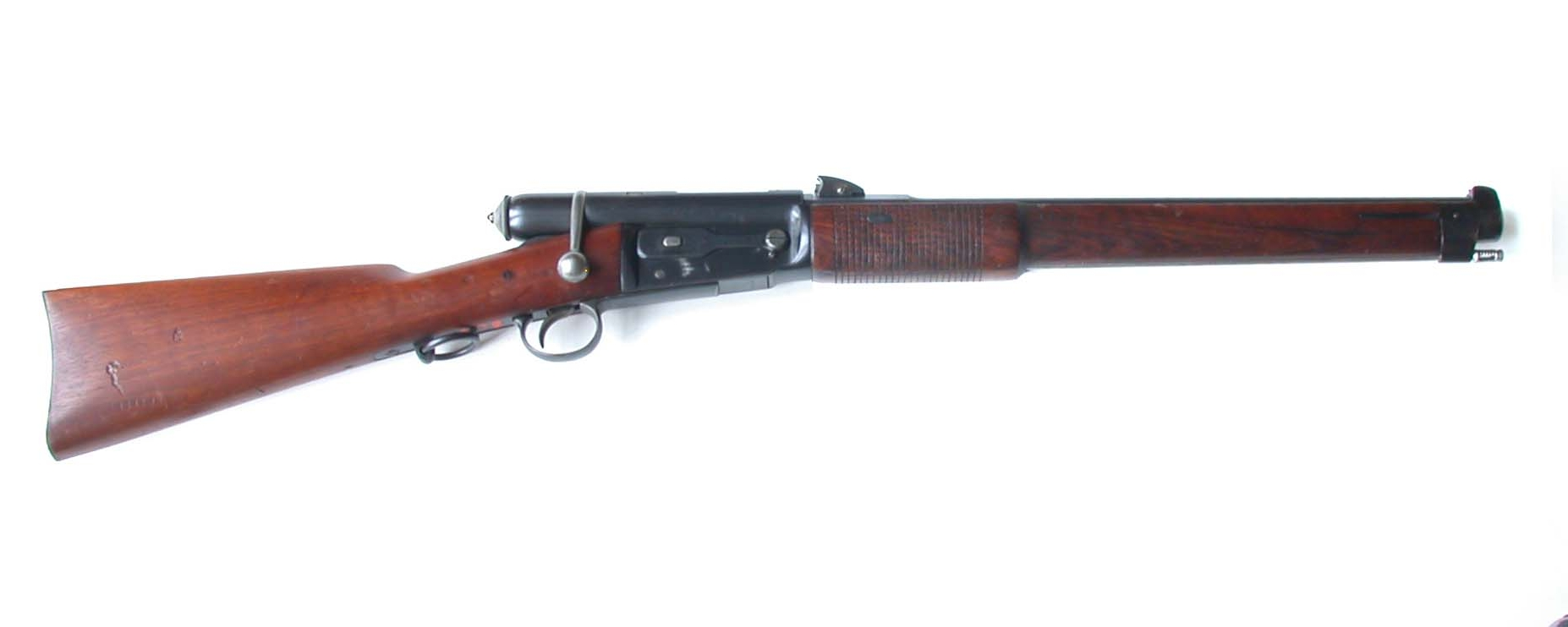 Vetterli carbine